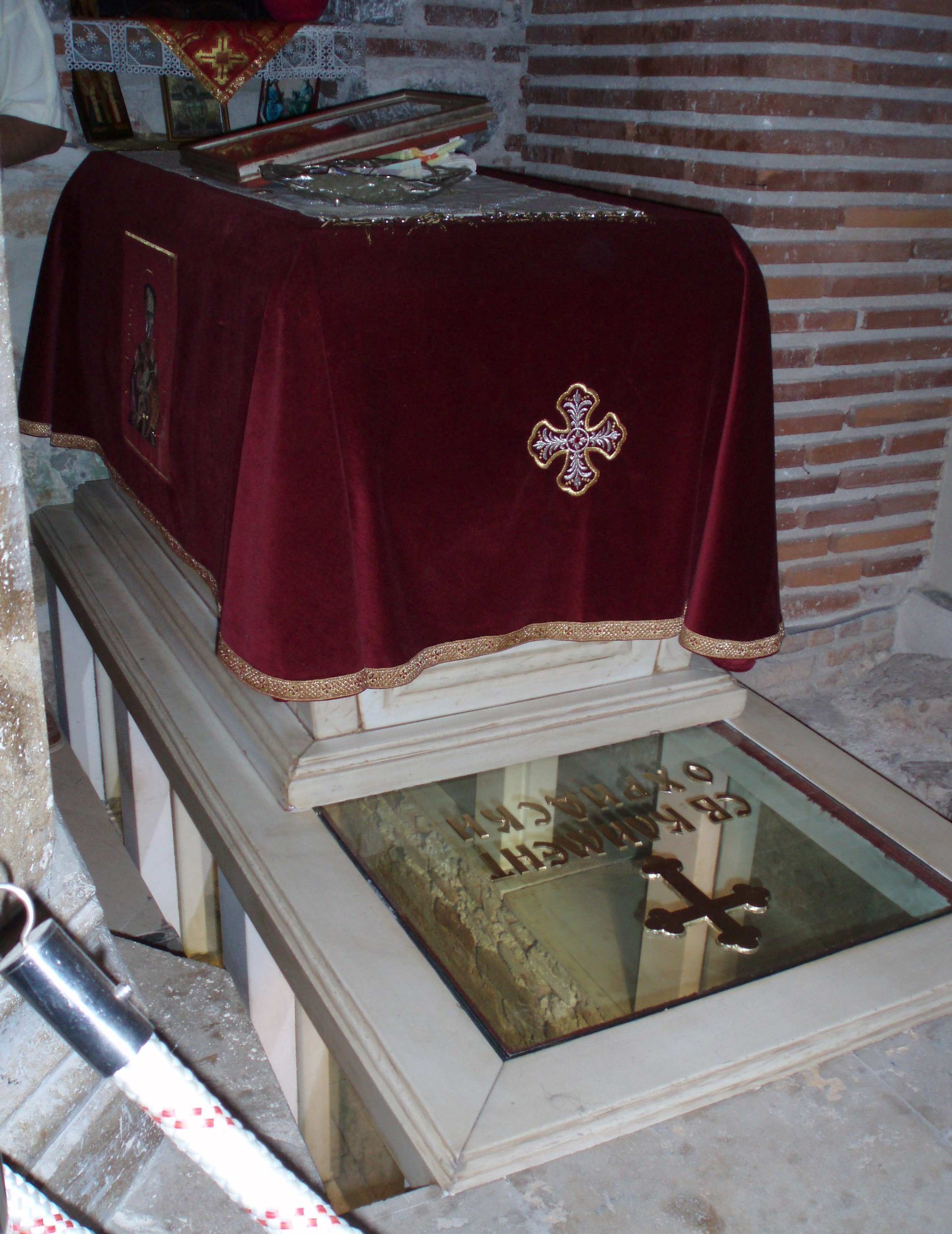 Church Saint Clement and Pantheleimon in Ohrid, Republic of Macedonia. The tomb of Clement of Ohrid